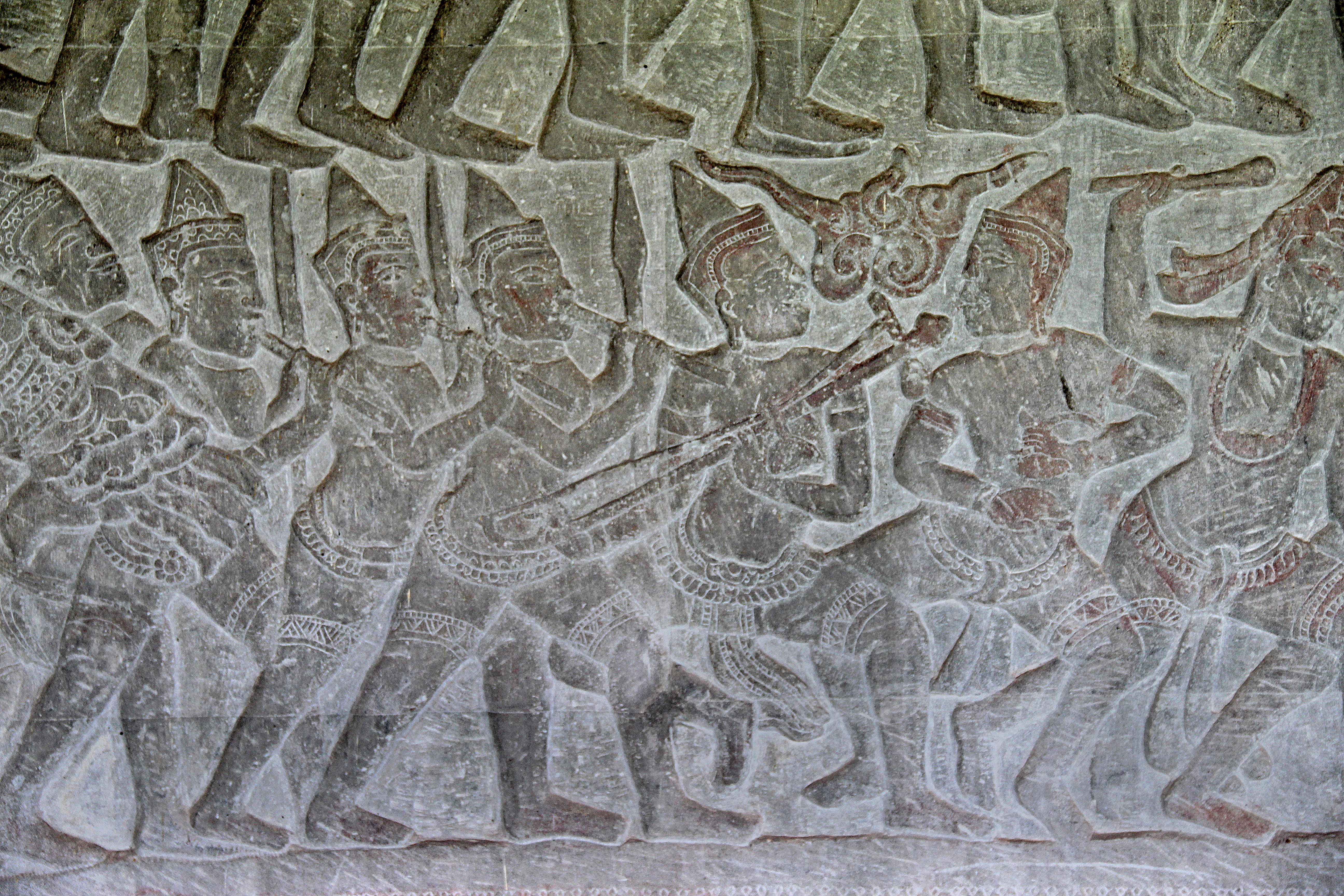 Bas relief from the north gallery of Angkor Wat, constructed in the 16th century a.d., showing musician (center) playing a kse diev.[1][2] The areophone instruments are possibly blockflutes or oboes. The man to the right of the kse diev is clapping cymbals.